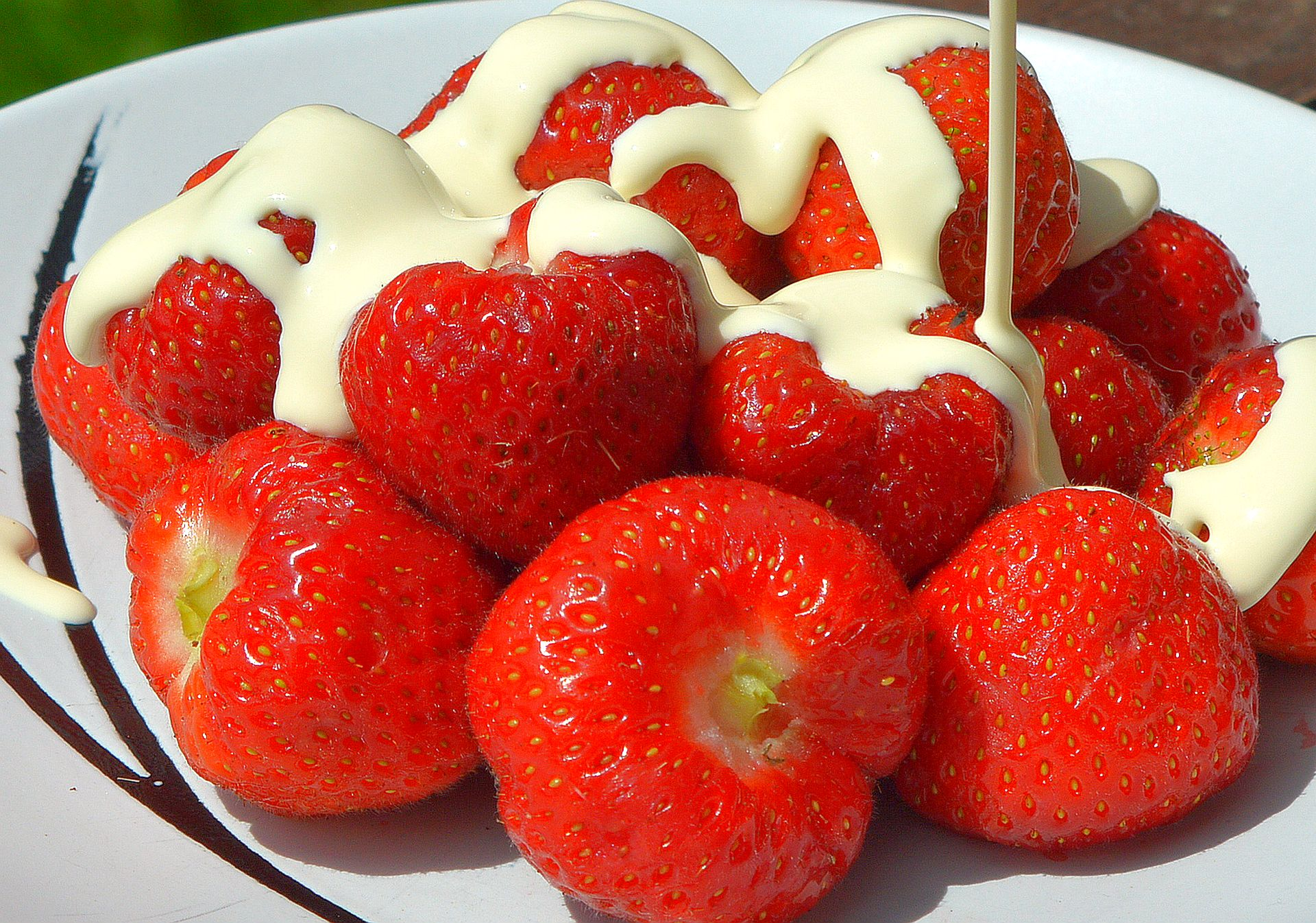 Wimbledon 2014; Strawberries and cream.